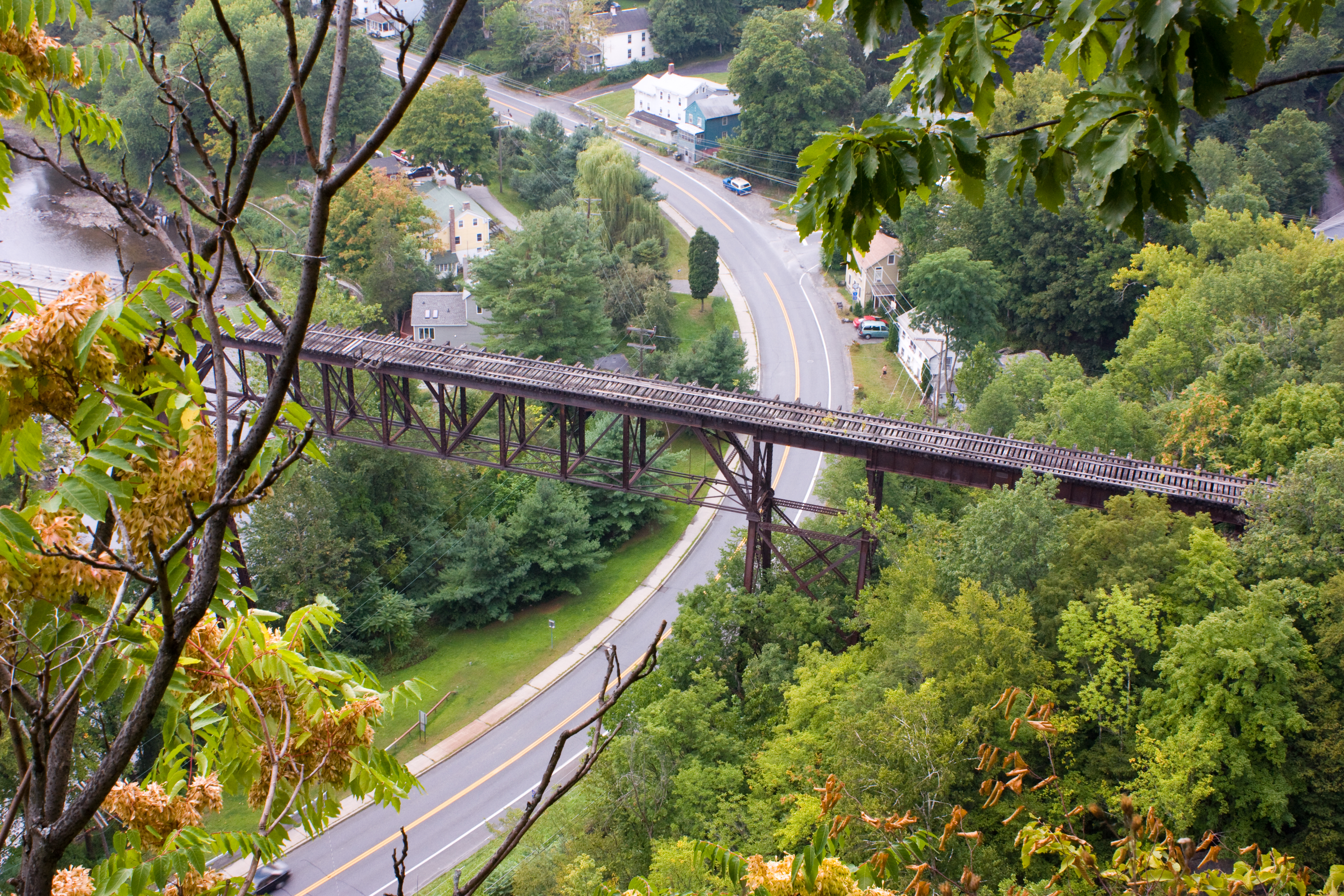 Photo of the northern half of the Rosendale, New York trestle bridge taken from Joppenbergh Mountain.